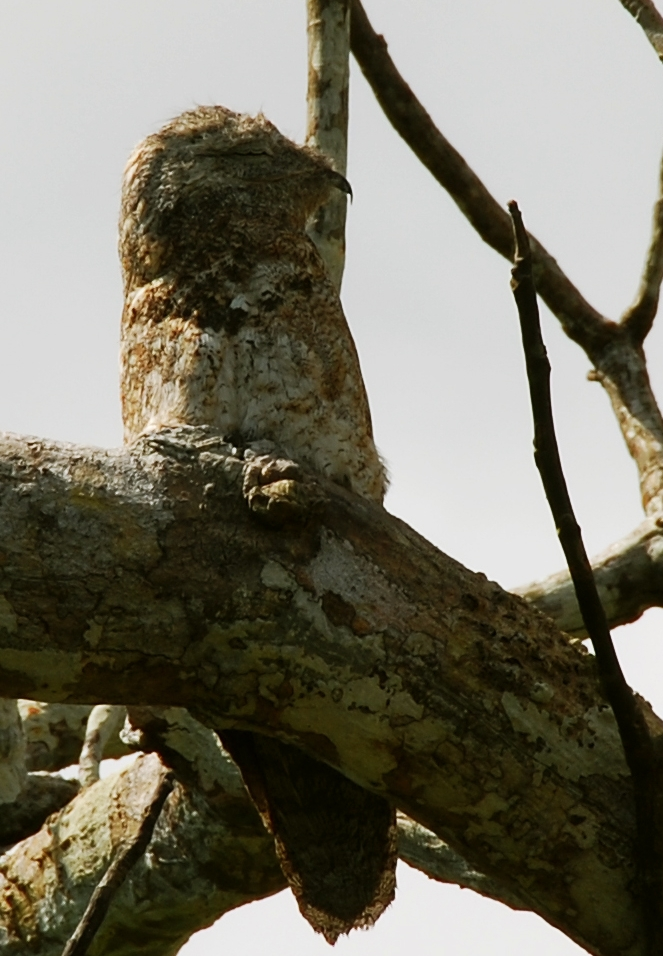 Great Potoo (Nyctibius grandis)